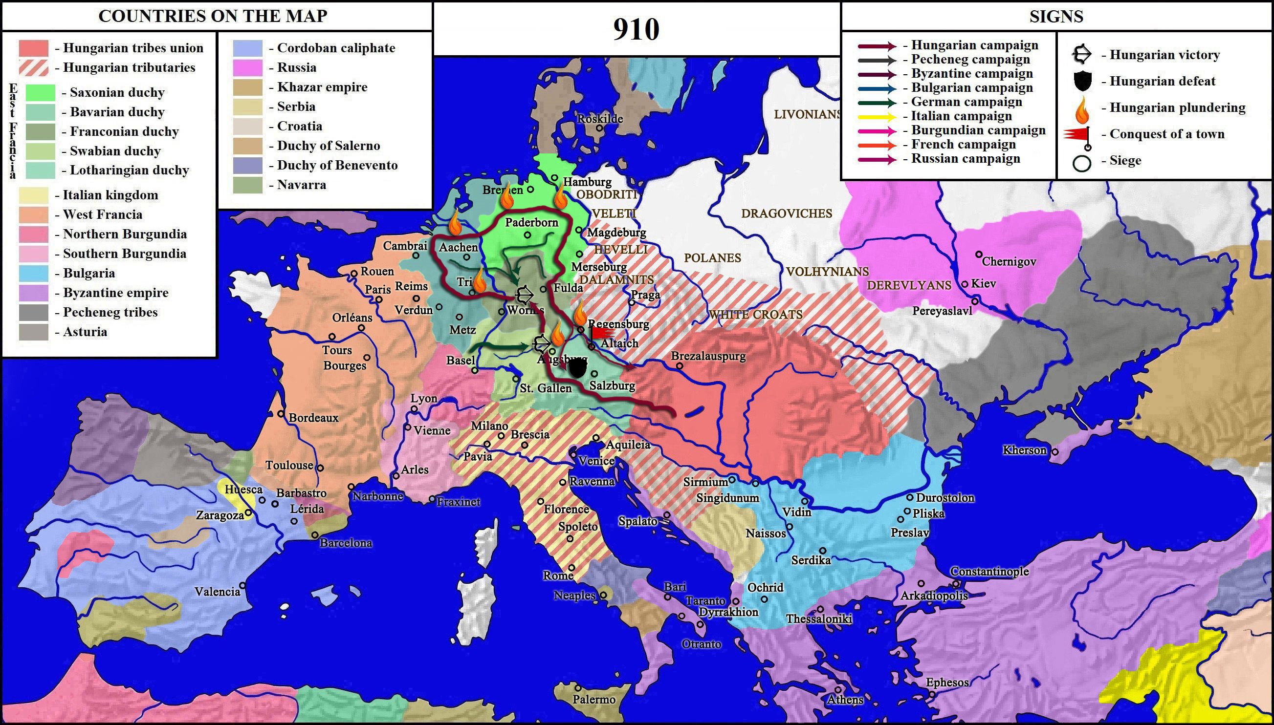 The Hungarian campaign in the East Frankish lands in 910, which resulted the Hungarian victories from Augsburg and Rednitz..